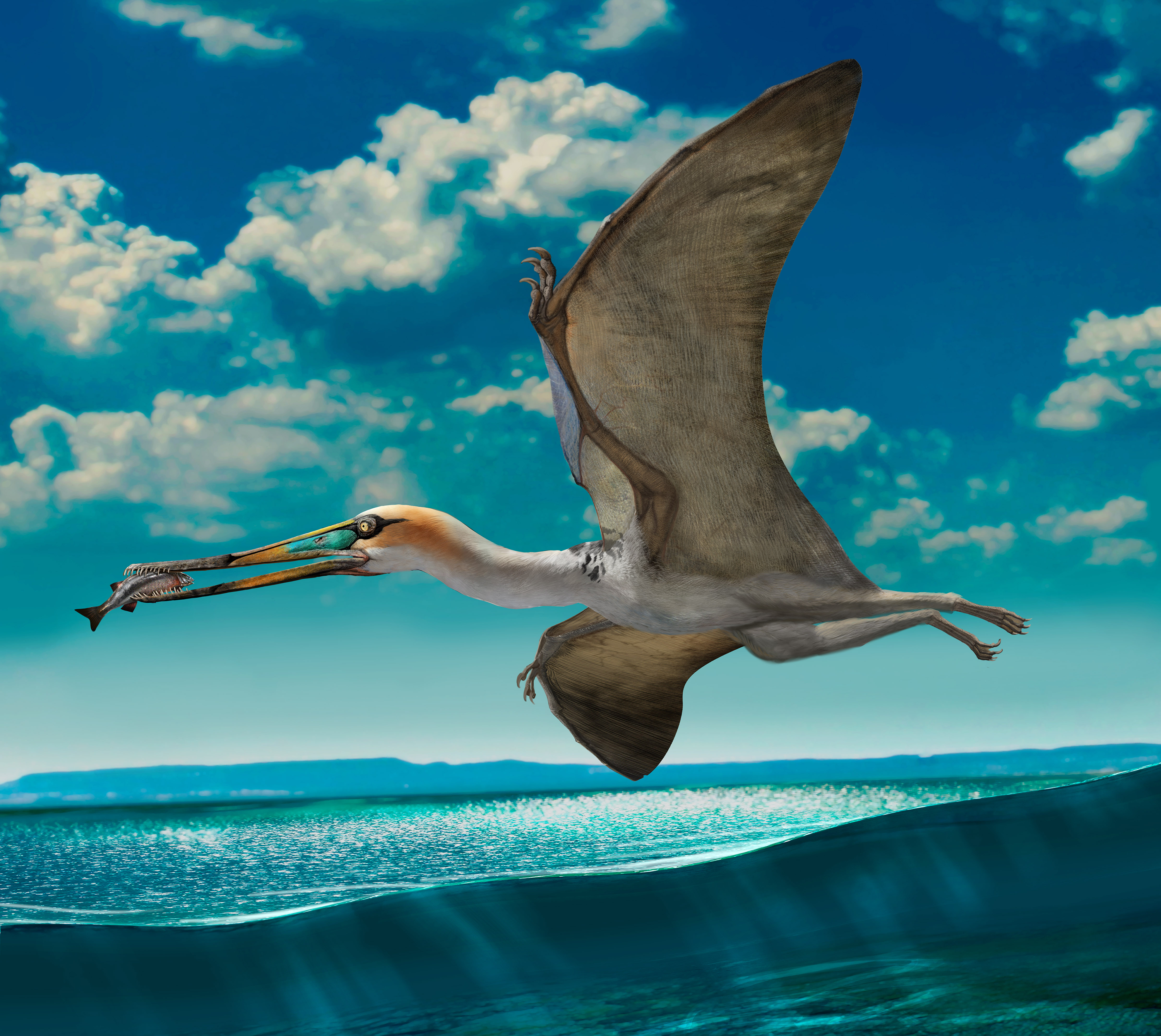 Life reconstruction of Gladocephaloideus jingangshanensis (drawn by Zhao Chuang).